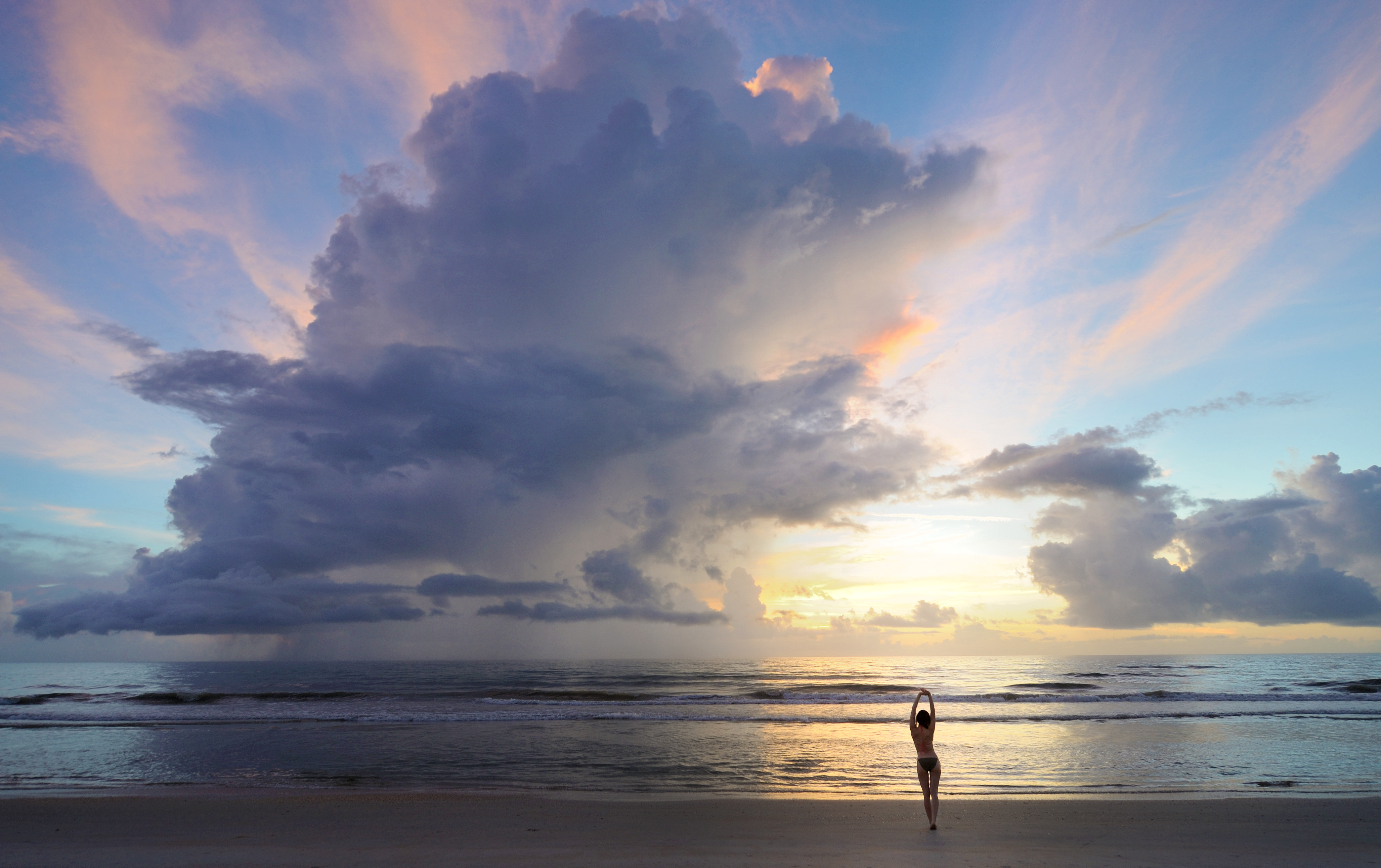 Eastward view of Canaveral National Seashore, Florida. Photo attribution must go to Steven H. Keys and